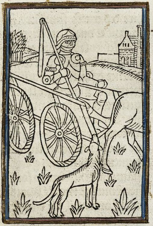 Woodcut from the 1484 Ovid edition by Colard Mansion